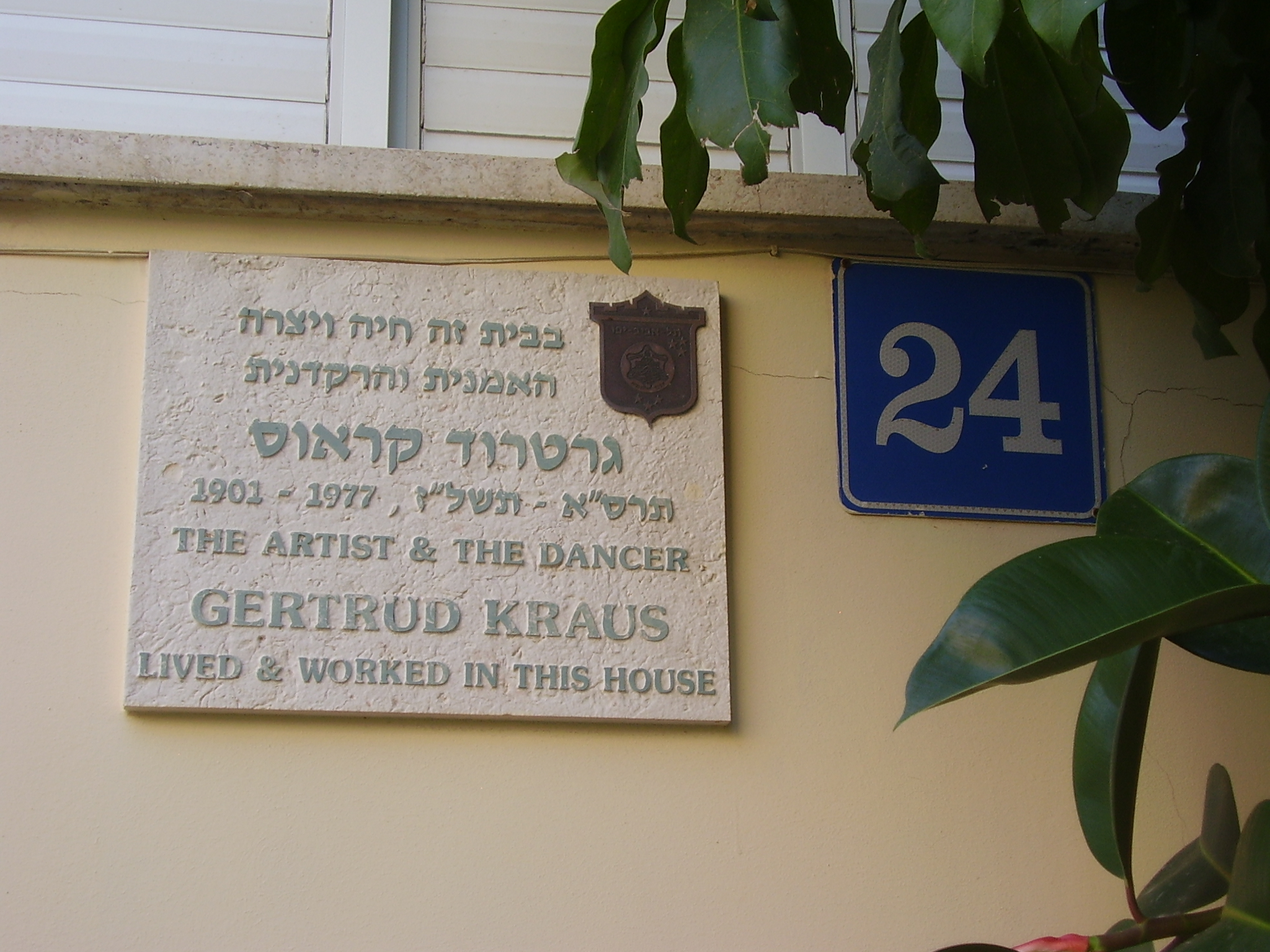 memorial plaque on the dancer gertrud kraus house in tel aviv לוחית זיכרון על ביתבה של האמנית והקרדנית גרטרוד קראוס ברח' פרוג 24 בתל אביב